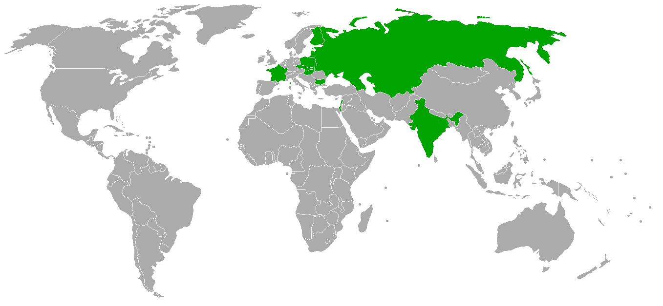 1952 FIVB Men's World Championship